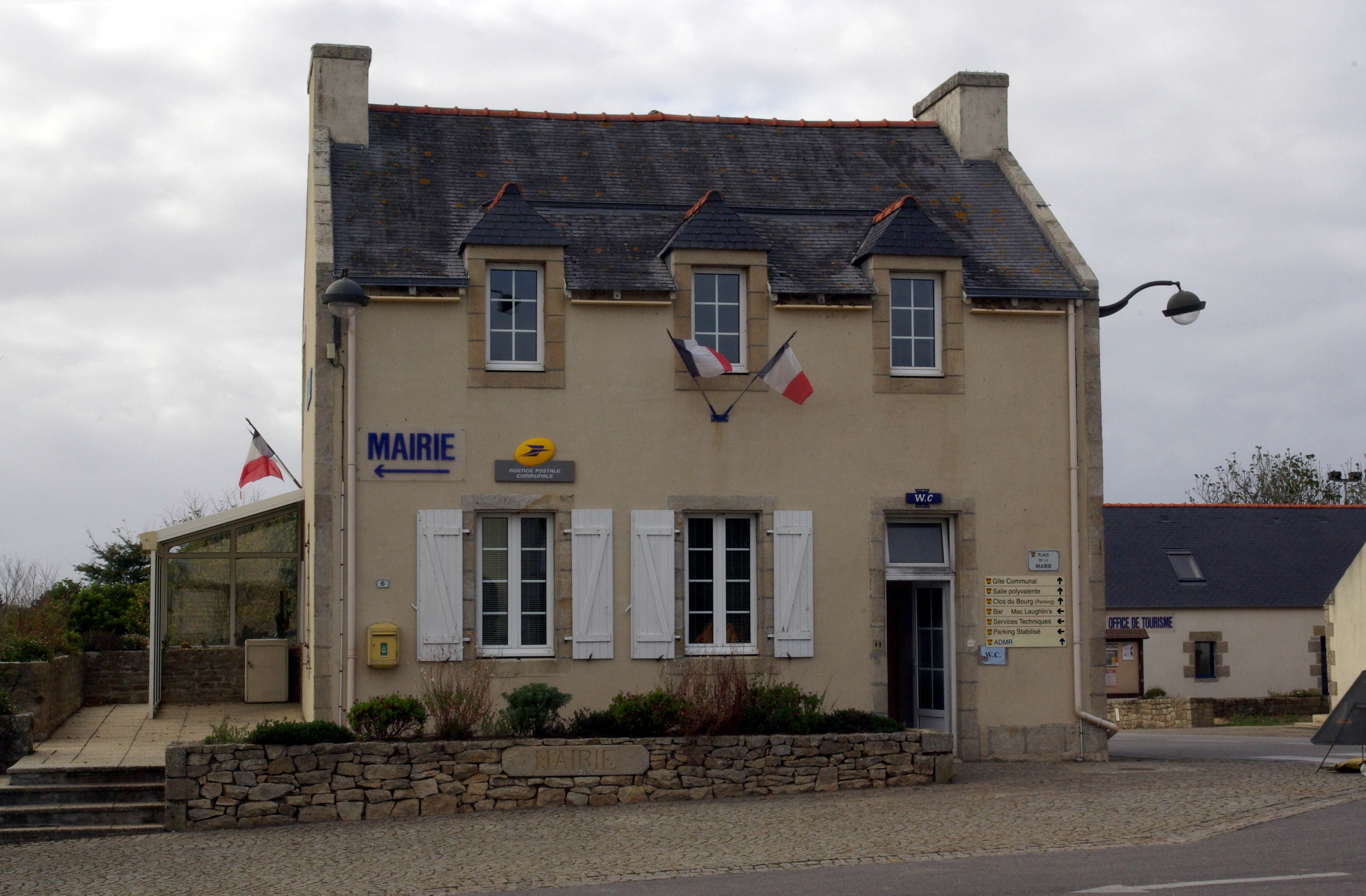 Beuzec-Cap-Sizun, Mayor's office